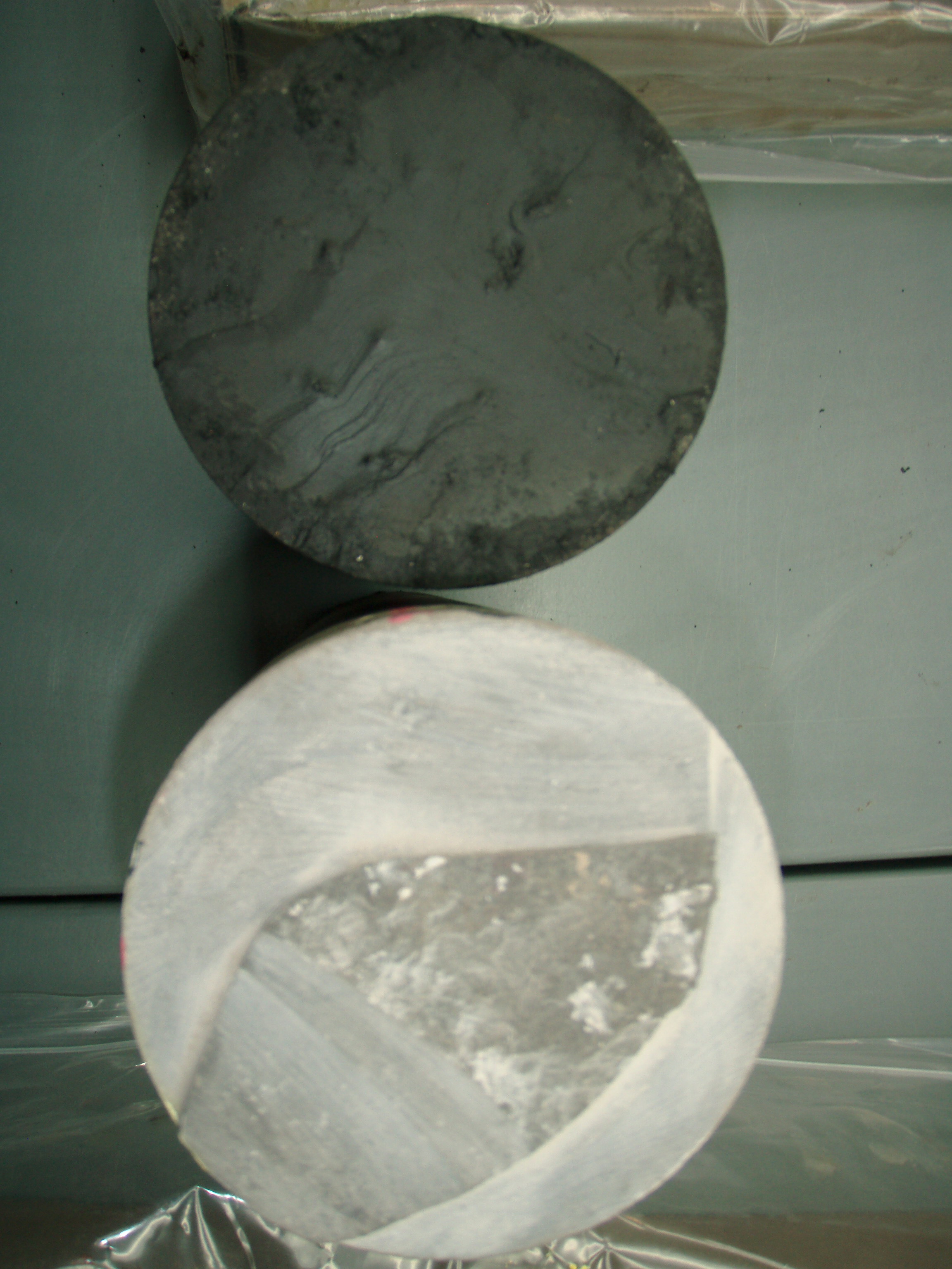 North Dakota Lower Bakken - 3 forks Transition Core. Lower core shows island cut.